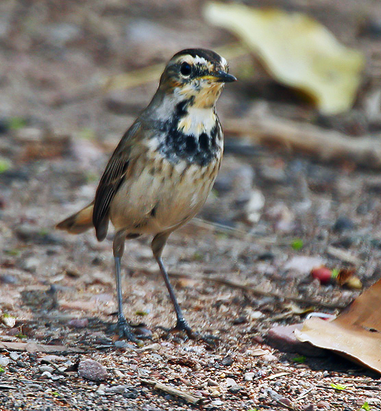 Bluethroat (Luscinia svecica) at Keoladeo National Park, Bharatpur, Rajasthan, India.